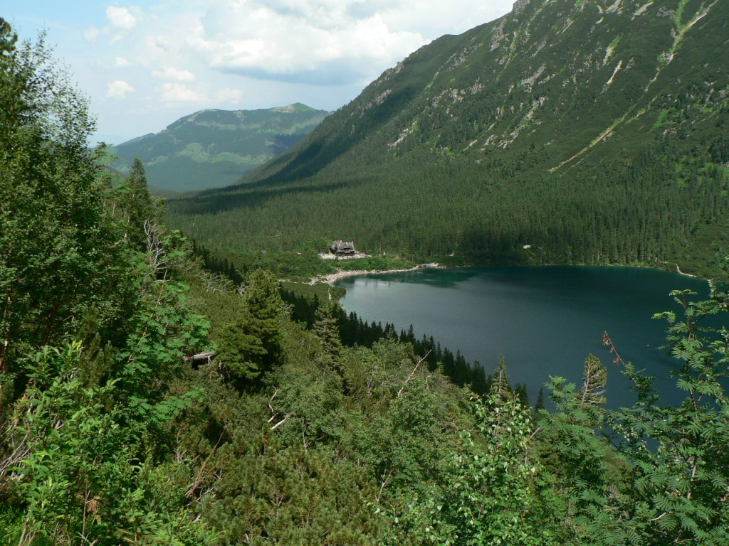 Morskie Oko with the cottage.